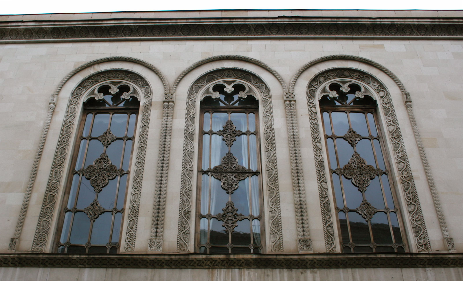 National Parliamentary Library of Georgia, Building #1 located in 3 Gudiashvili St., Tbilisi. It was built as the Bank of Nobility in 1913-16 by architect Anatoly Kalgin and artist Henrik Hrinewsky.